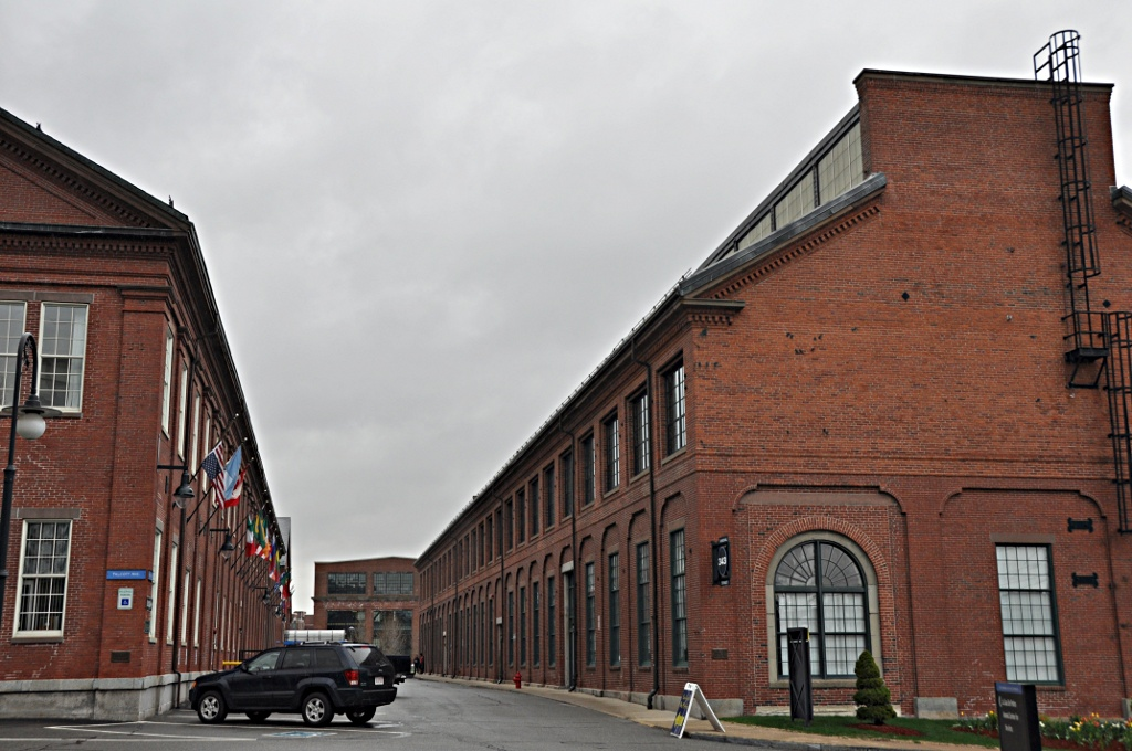 A scene from the Watertown Arsenal as renovated for civilian use.